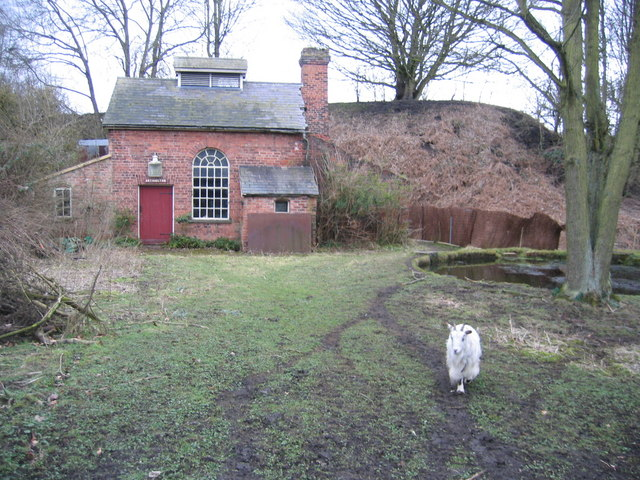 Gas Works sited within the triangular junction at Arthington railway station, Arthington, City of Leeds in West Yorkshire